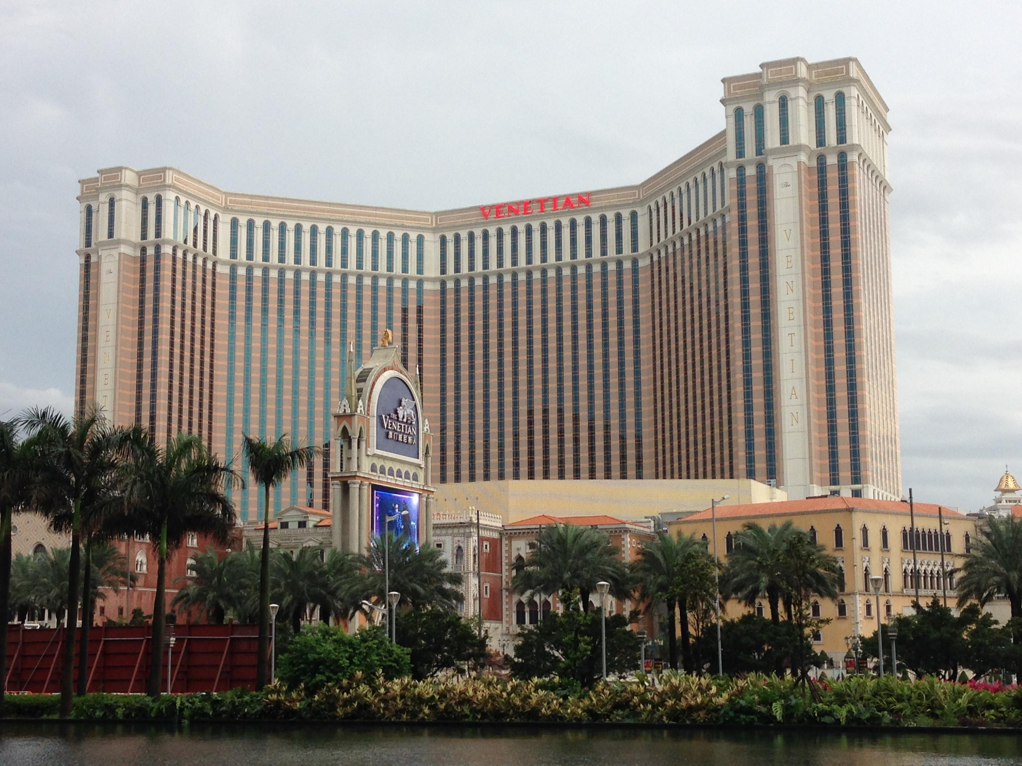 The Venetian Macao